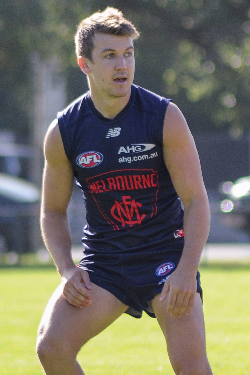 Jack Trengove during Melbourne training on 28 March 2017 at Gosch's Paddock in Melbourne, Victoria.